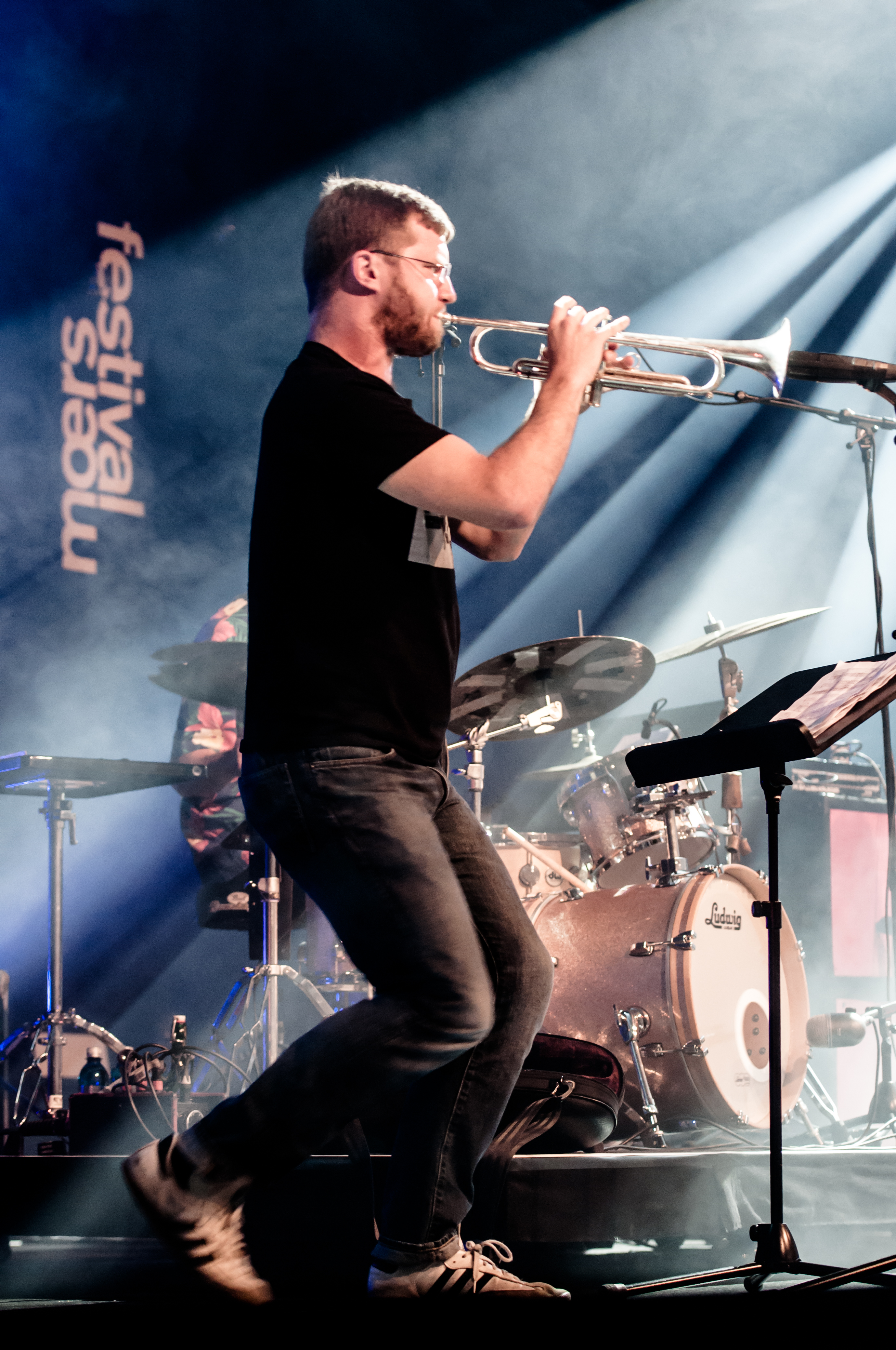 US-american trumpet player Peter Evans at the Moers Festival 2015